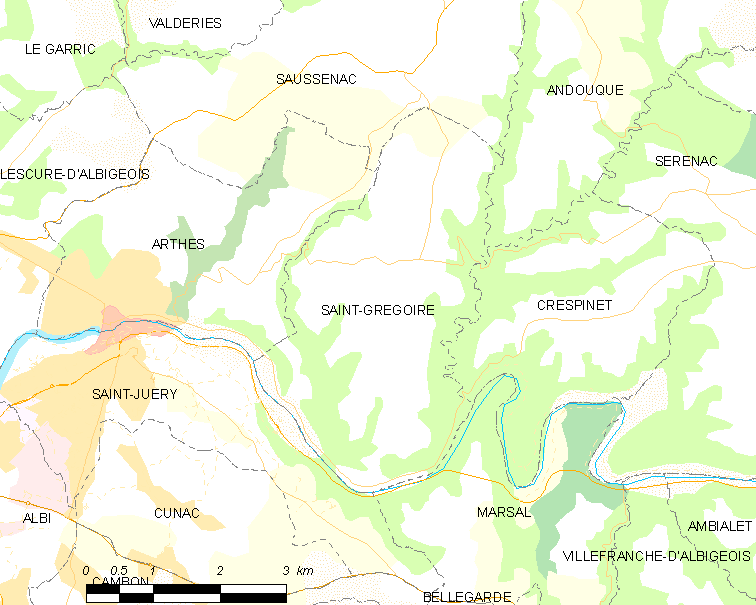 Map of French municipality Saint-Grégoire